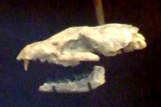 Skull of Cormocyon leptodus, a fossil canid